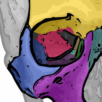 This picture, adapted from Gray's Anatomy fig. 190, highlights each of the 7 bones that form the orbit of the eye. It was made using Inkscape and Photoshop CS, by User:Je at uwo/sig Yellow: frontal bone; purple: maxilla; blue: zygomatic bone; green: lacrimal bone; gray-green: nasal bone (not part of orbit); pink: sphenoid bone; brown: ethmoid bone; light blue: palatine bone light blue is the zygomatic bone